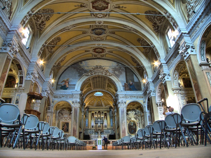 Internal view